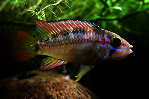 Male Apistogramma sp. „Papagei“